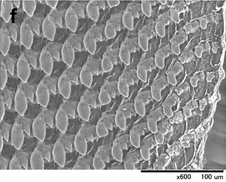 SEM photo of the marginal teeth of the radula of Halongella schlumbergeri (Morlet, 1886). Locality: 20071122D Hải Phòng Province, Hải Phòng City, Cát Bà Island, Cát Bà Nat. Park, between Cát Bà N.P., ranger st. and Quan Y, GPS not recorded, leg. Ohara, K, Okubo, K. & Otani, J. U., 22.11.2007., coll PGB (in ethanol, anatomically examined).